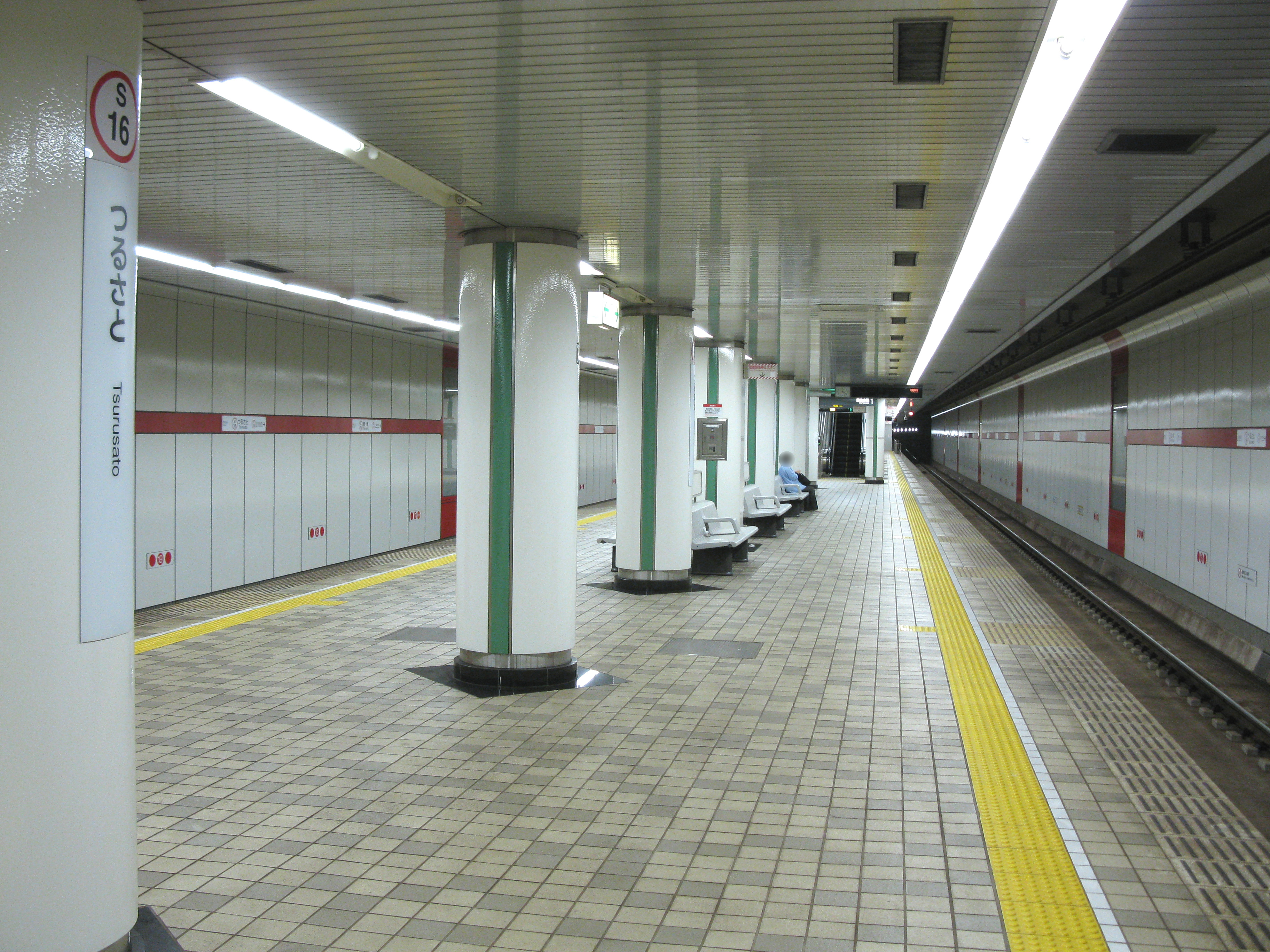 Tsurusato Station platform (Nagoya Municipal Subway Sakura-dōri Line)